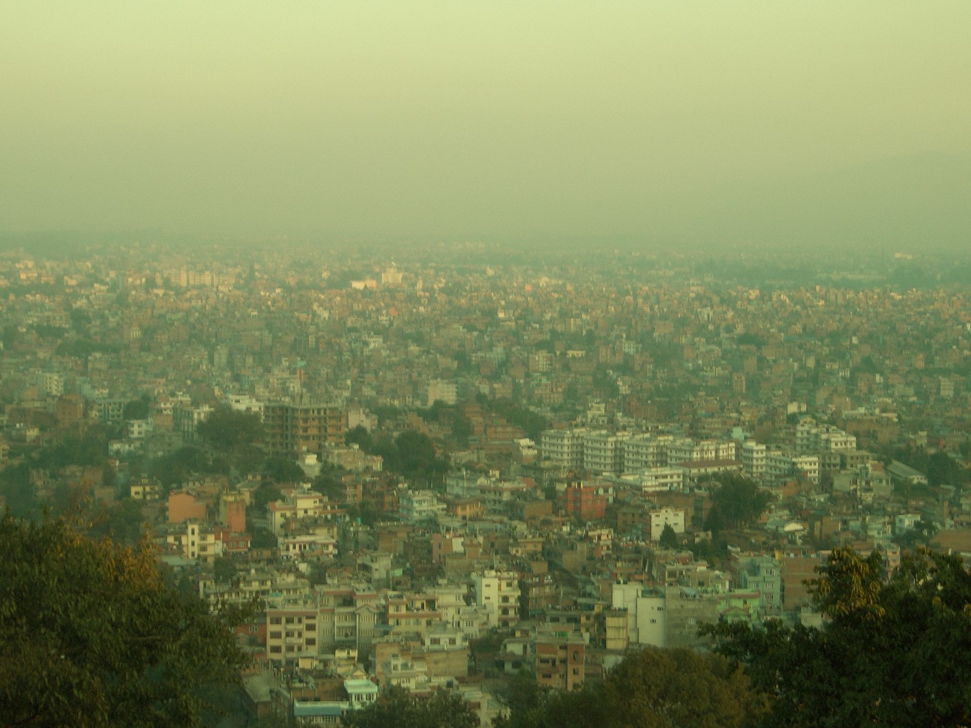 Photo: Soman